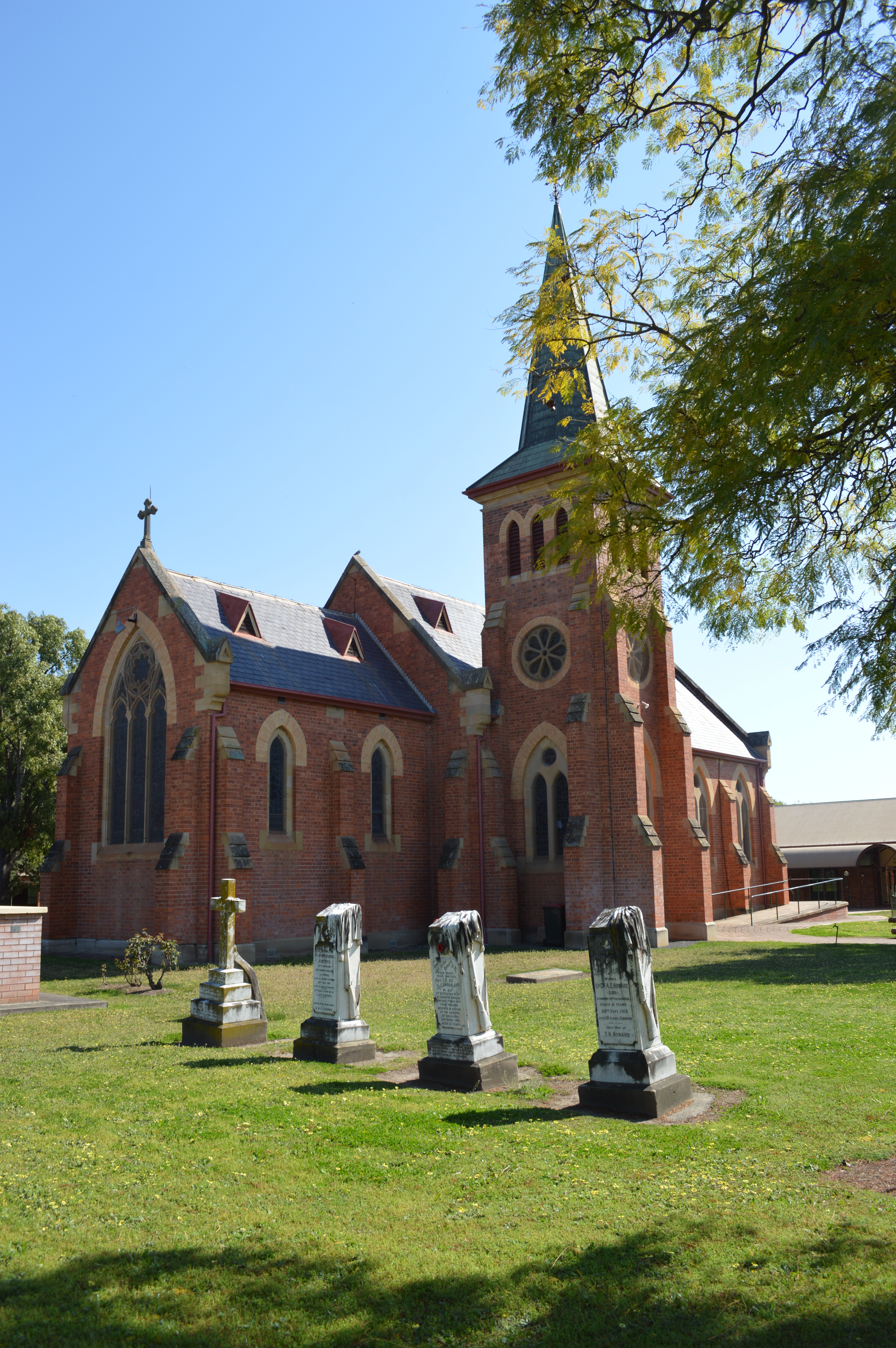 St Luke's Anglican church at Scone, New South Wales